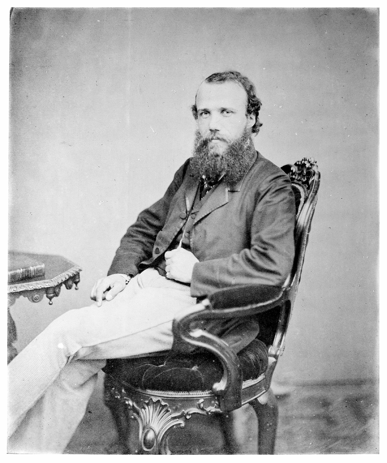 Portrait of Thomas Anderson. Iconographic Collections Keywords: Thomas Anderson